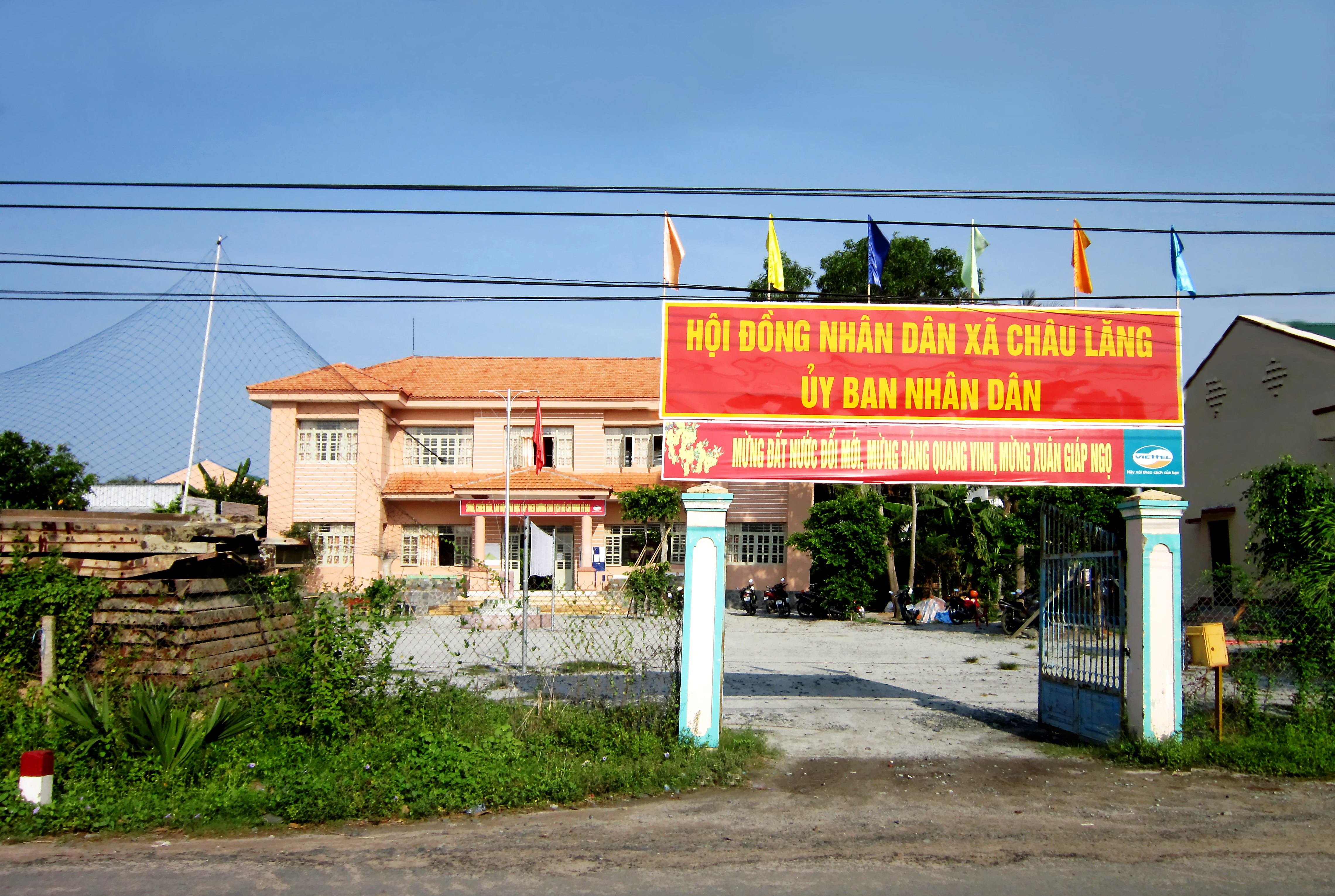 Ủy ban Nhân dân xã Châu Lăng, thuộc huyện Tri Tôn, tỉnh An Giang, Việt Nam.